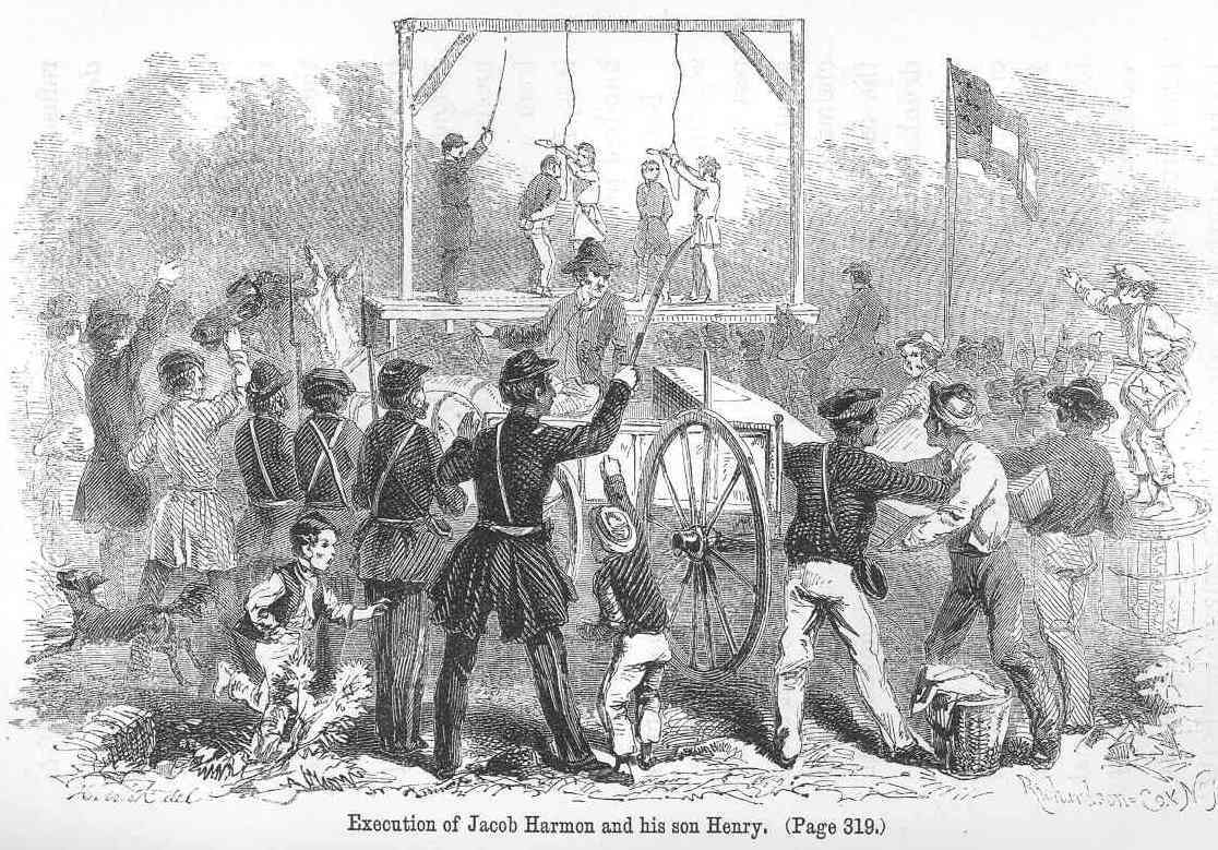 Engraving showing the hanging of Union supporter Jacob Harmon and his son, Henry, by the Confederate army in Knoxville, Tennessee, USA, on December 17, 1861 at the outbreak of the U.S. Civil War (1861–1865). The Harmons were accused of aiding in the burning of numerous railroad bridges to cut Confederate supply lines a few weeks earlier. This engraving appeared in William "Parson" Brownlow's book, Sketches of the Rise, Progress, and Decline of Secession. Brownlow was confined with the Harmons before their execution.